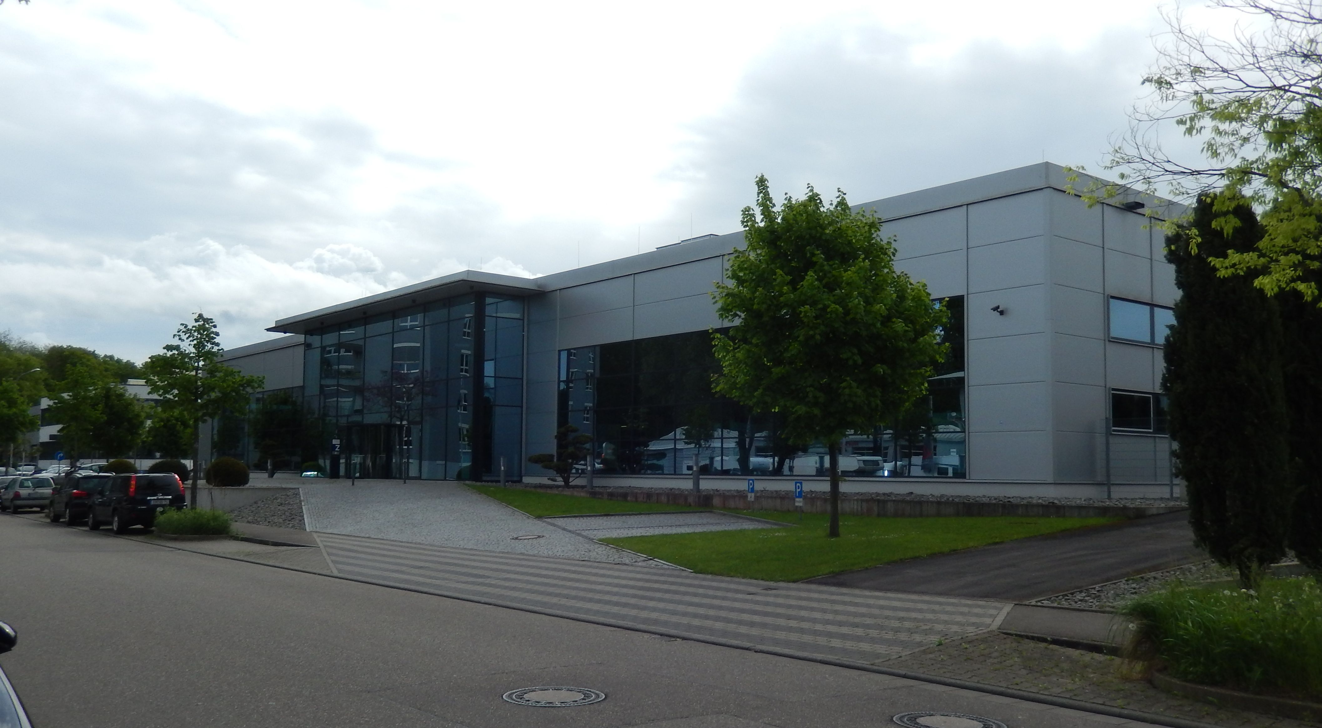 Zahoransky building in Freiburg, Germany.